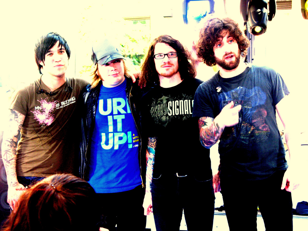 Fall Out Boy at Rockefeller Center performing on NBC's Today Show.